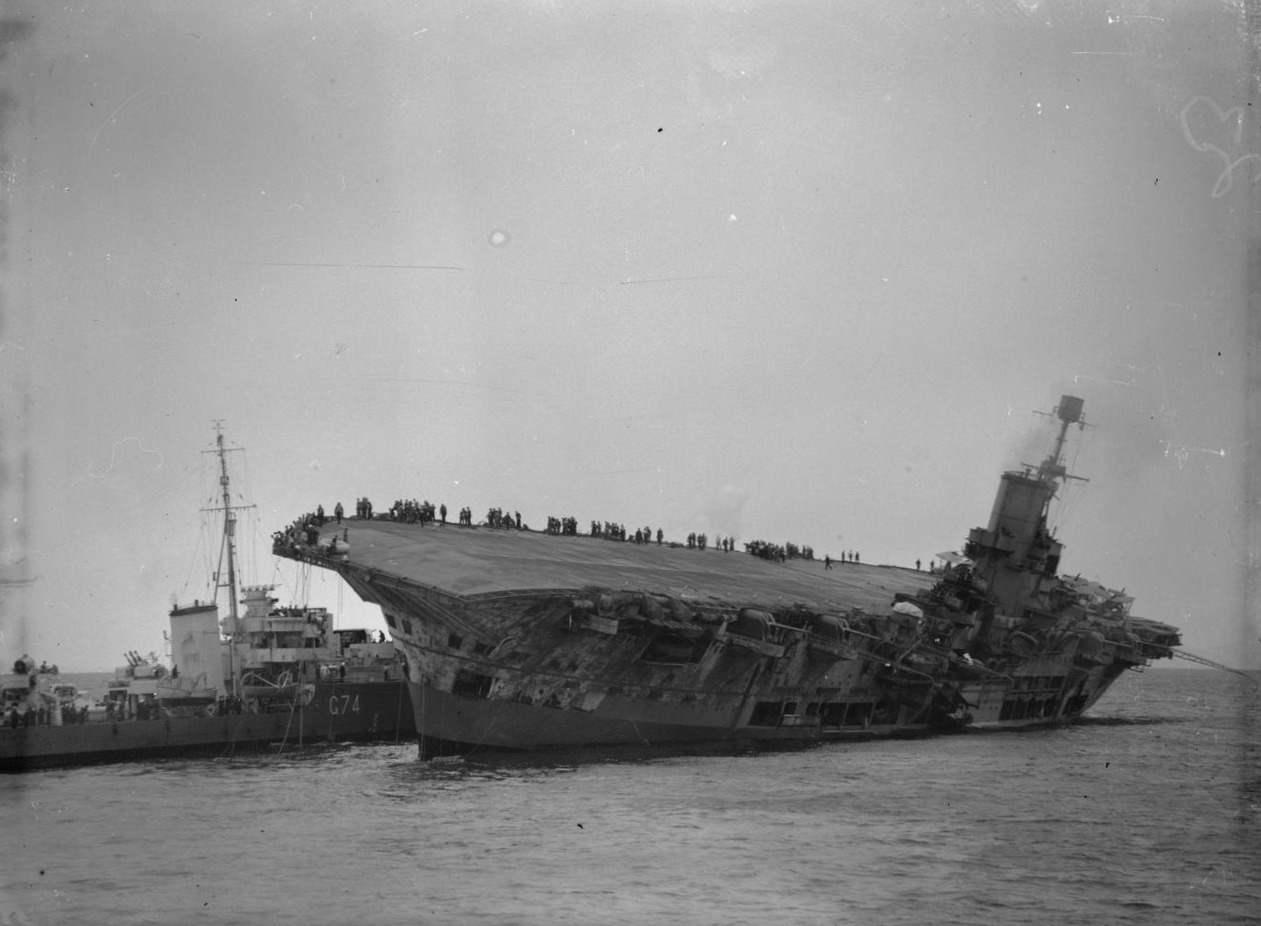 IWM caption : HMS LEGION moves alongside the damaged and listing HMS ARK ROYAL in order to take off survivors. The aircraft carrier was torpedoed by the German U-boat U 81 off Gibraltar. HMS ARK ROYAL sank the following day.